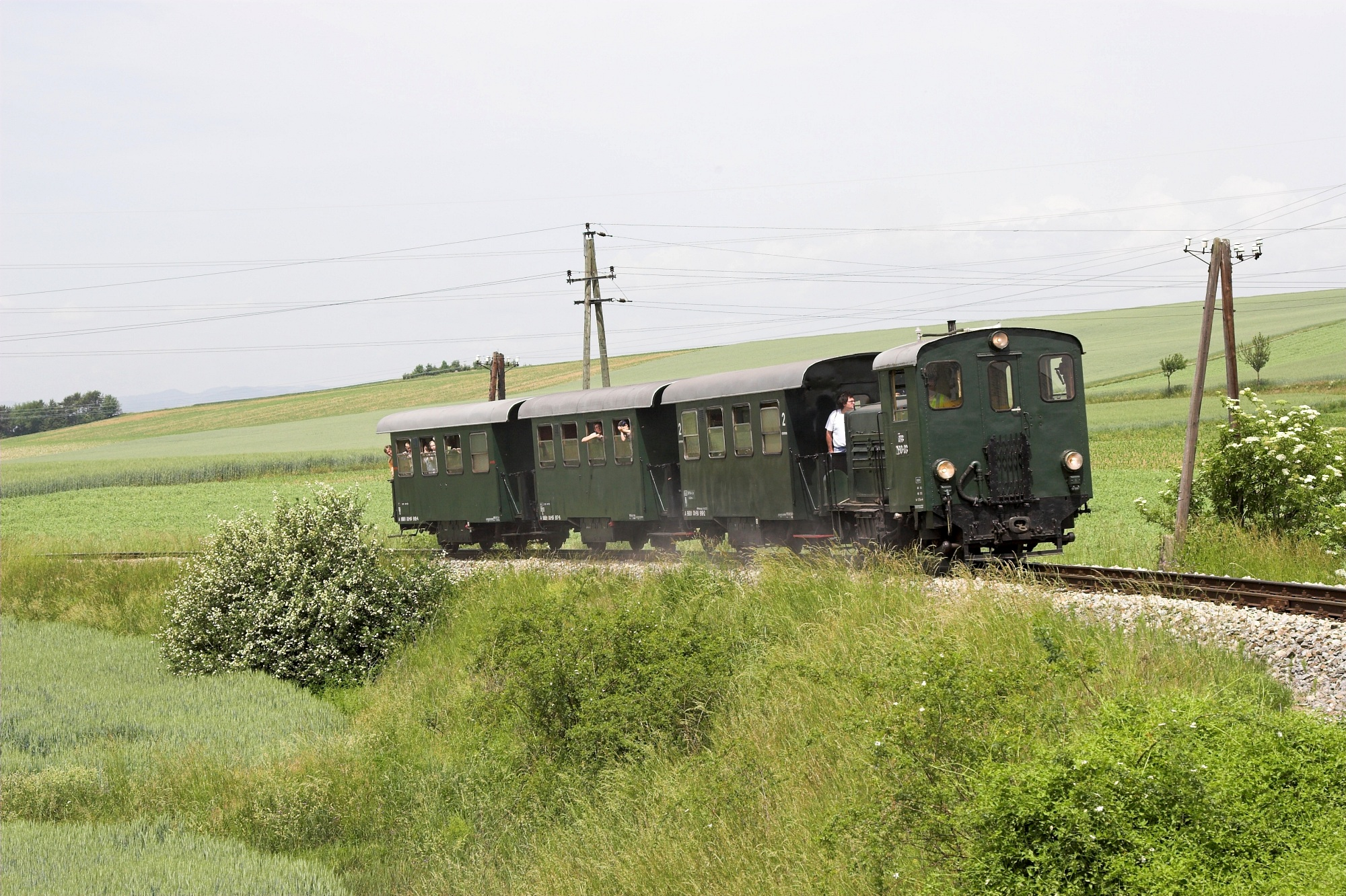 Train with historic narrow gauge diesel locomotive 2190.03 on the Ober Grafendorf to Mank line, pulling its maximum load of three four wheel cars.